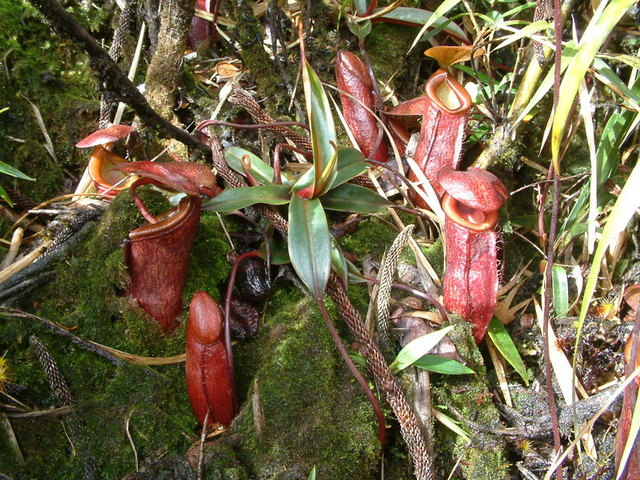 Nepenthes lamii from Western New Guinea (~2600 m asl)